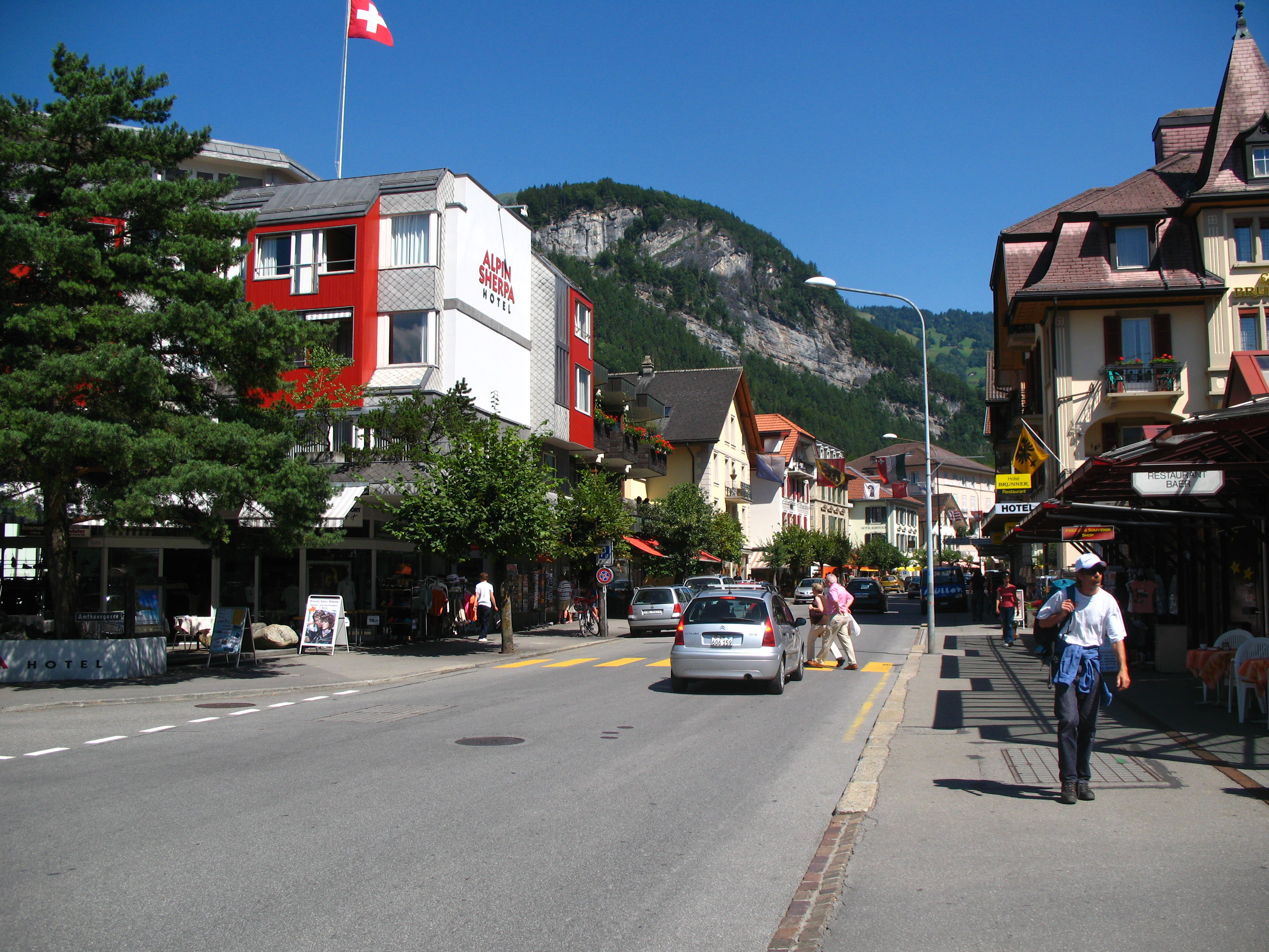 Train Station Street, Meiringen, Switzerland